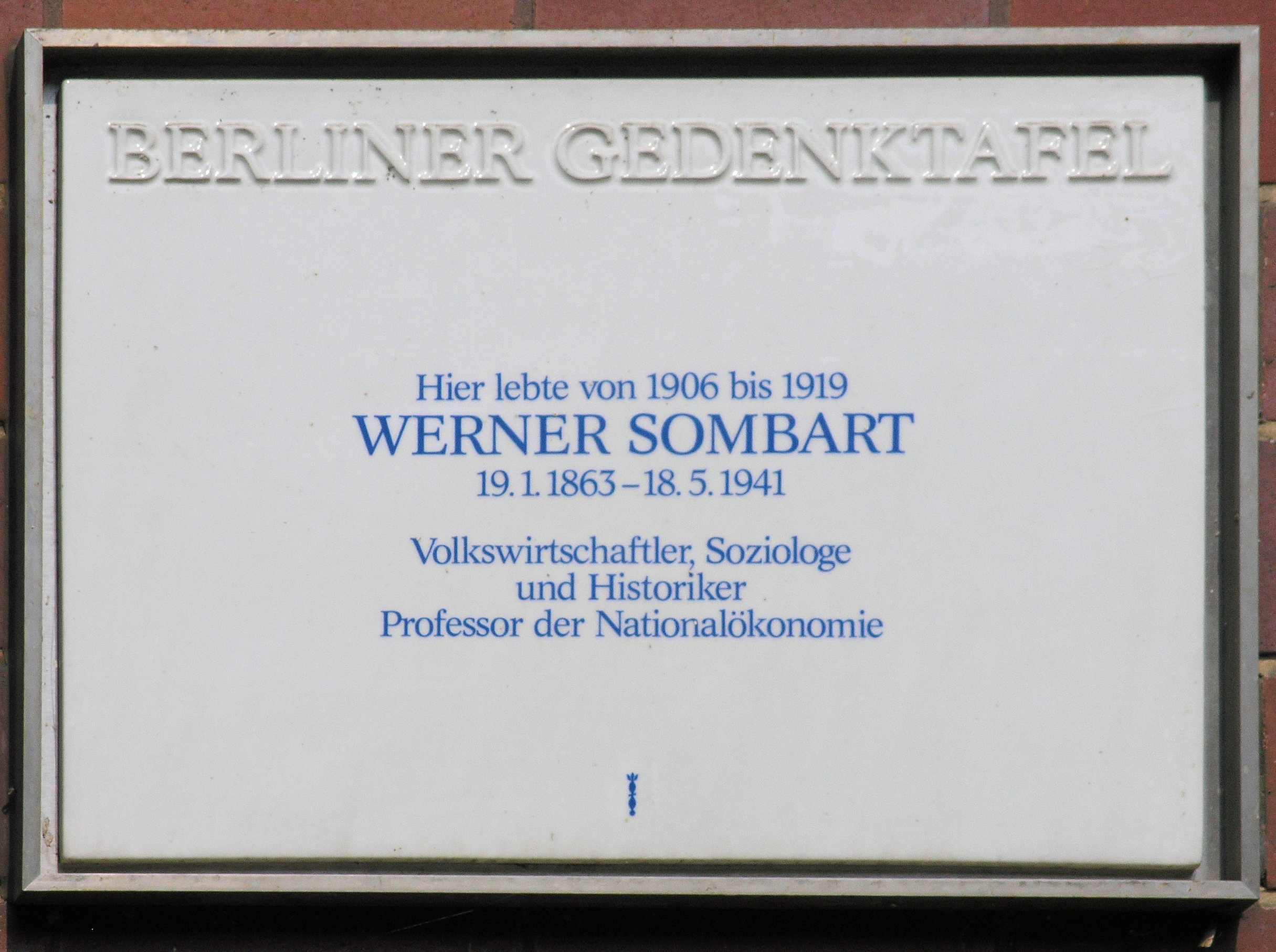 Berlin memorial plaque, Werner Sombart, Suarezstraße 27, Berlin-Charlottenburg, Germany Koordinate:52°30′16.6″N 13°17′33.7″E / 52.504611°N 13.292694°E